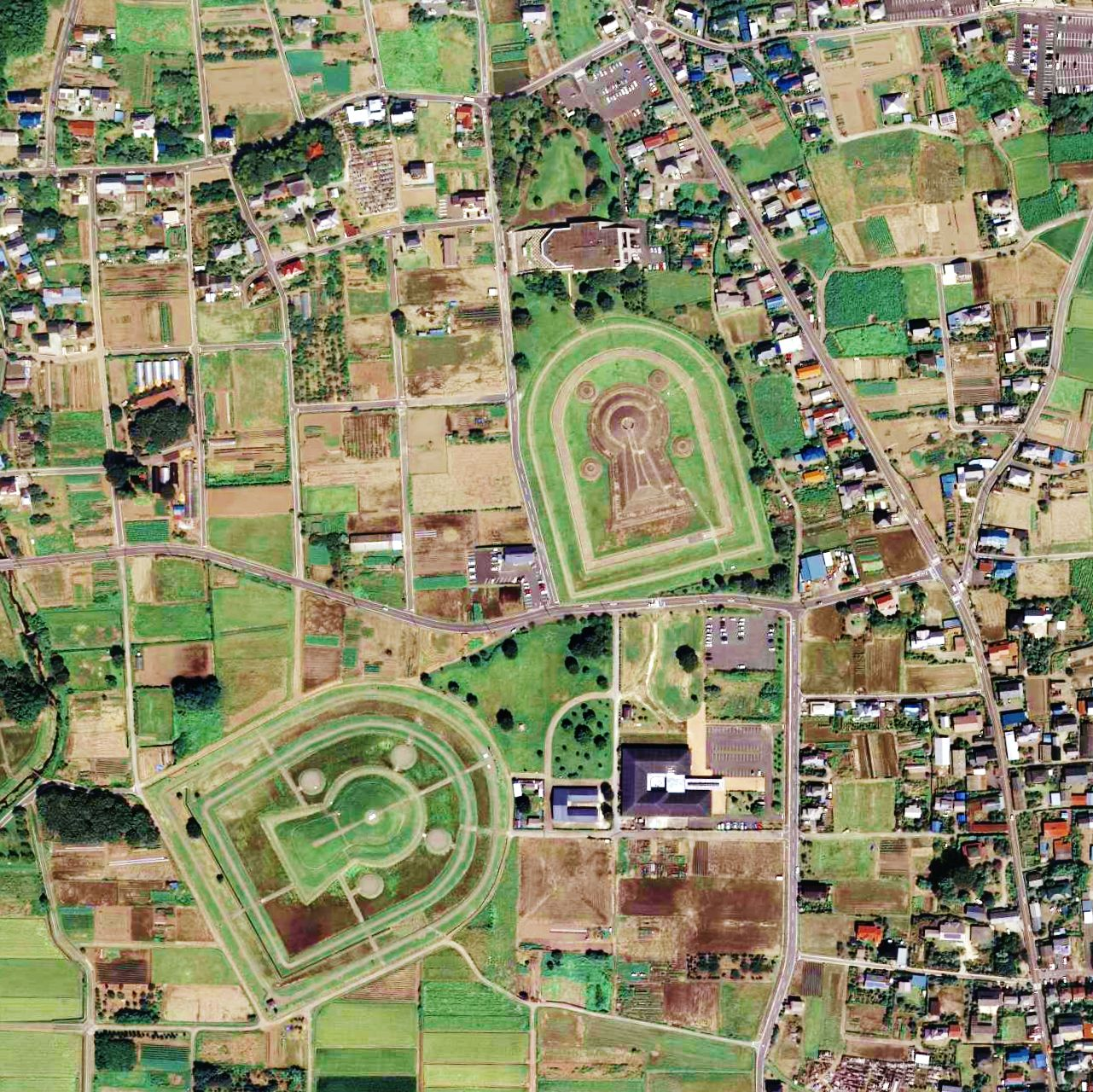 Kamitsukenu Haniwano-sato Park.